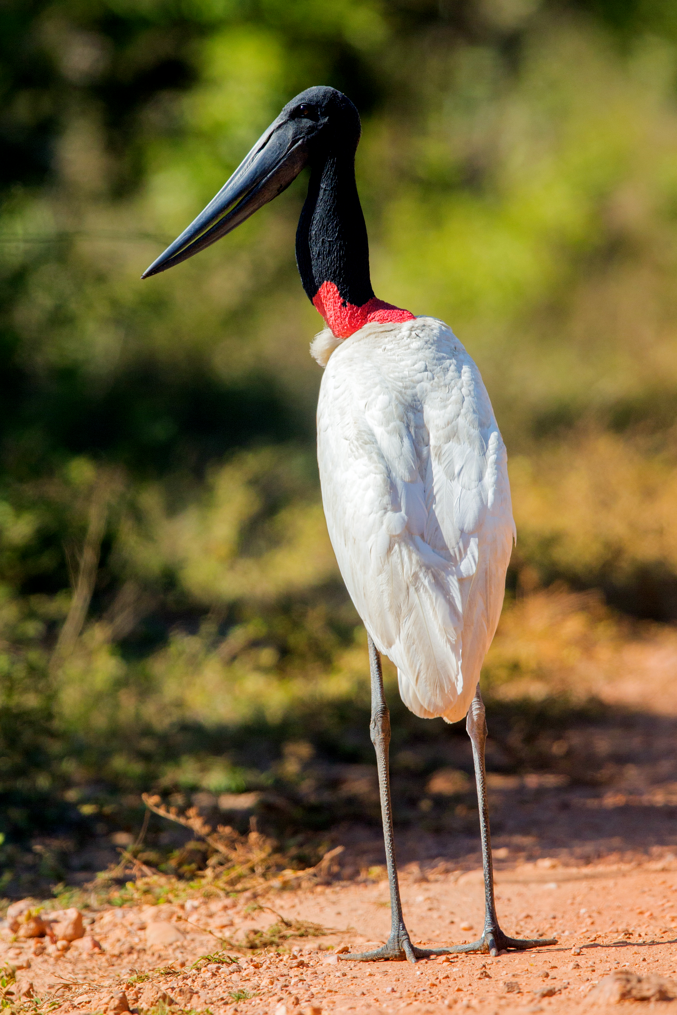 Jabiru